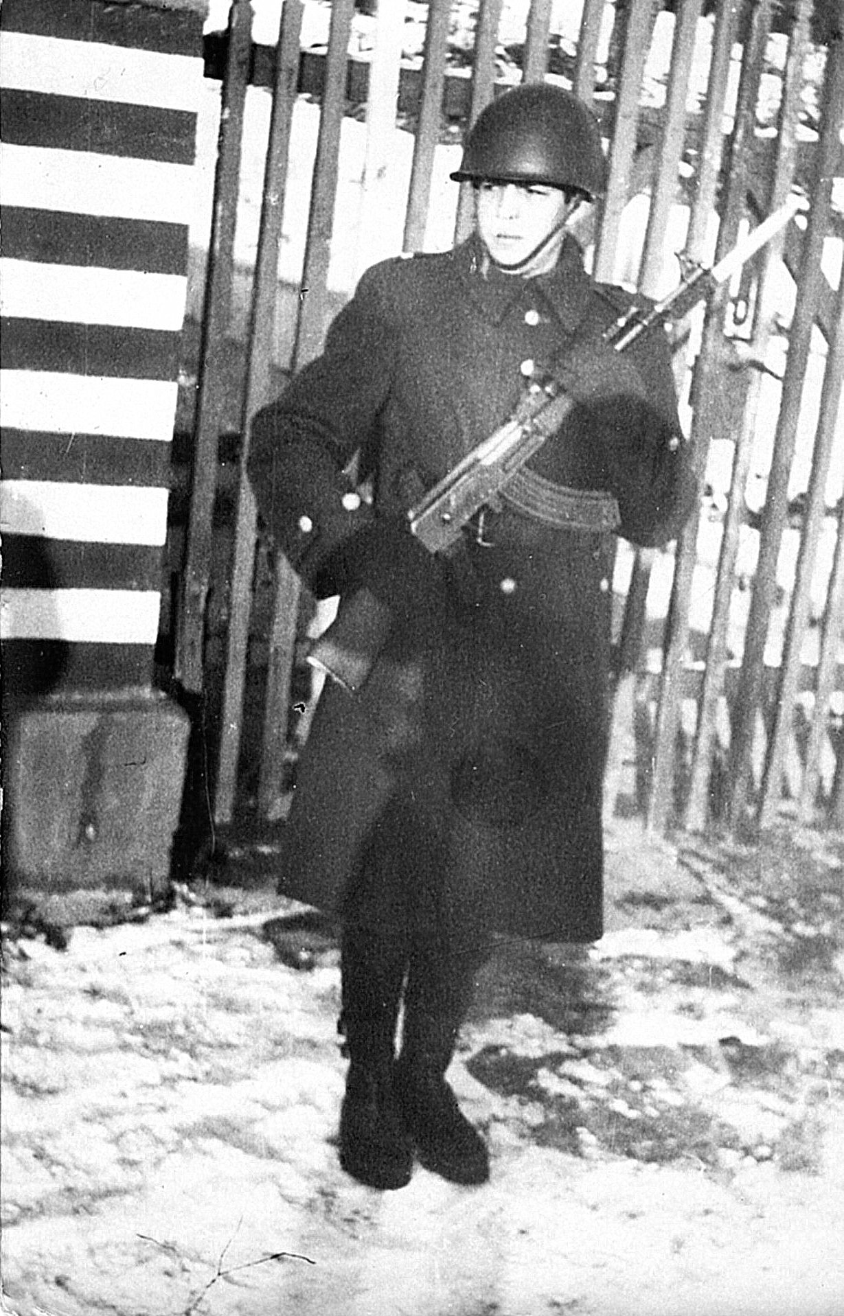 Border Protection Forces in Dźwirzyno